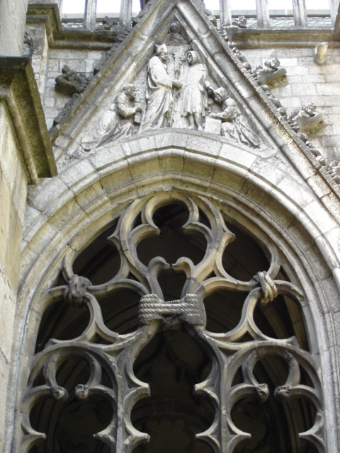 Rope Window Utrecht Cathedral